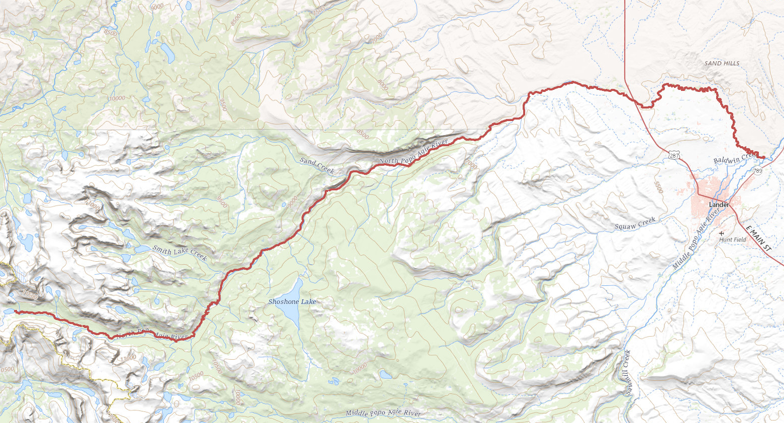 The flow of the North Fork Popo Agie River